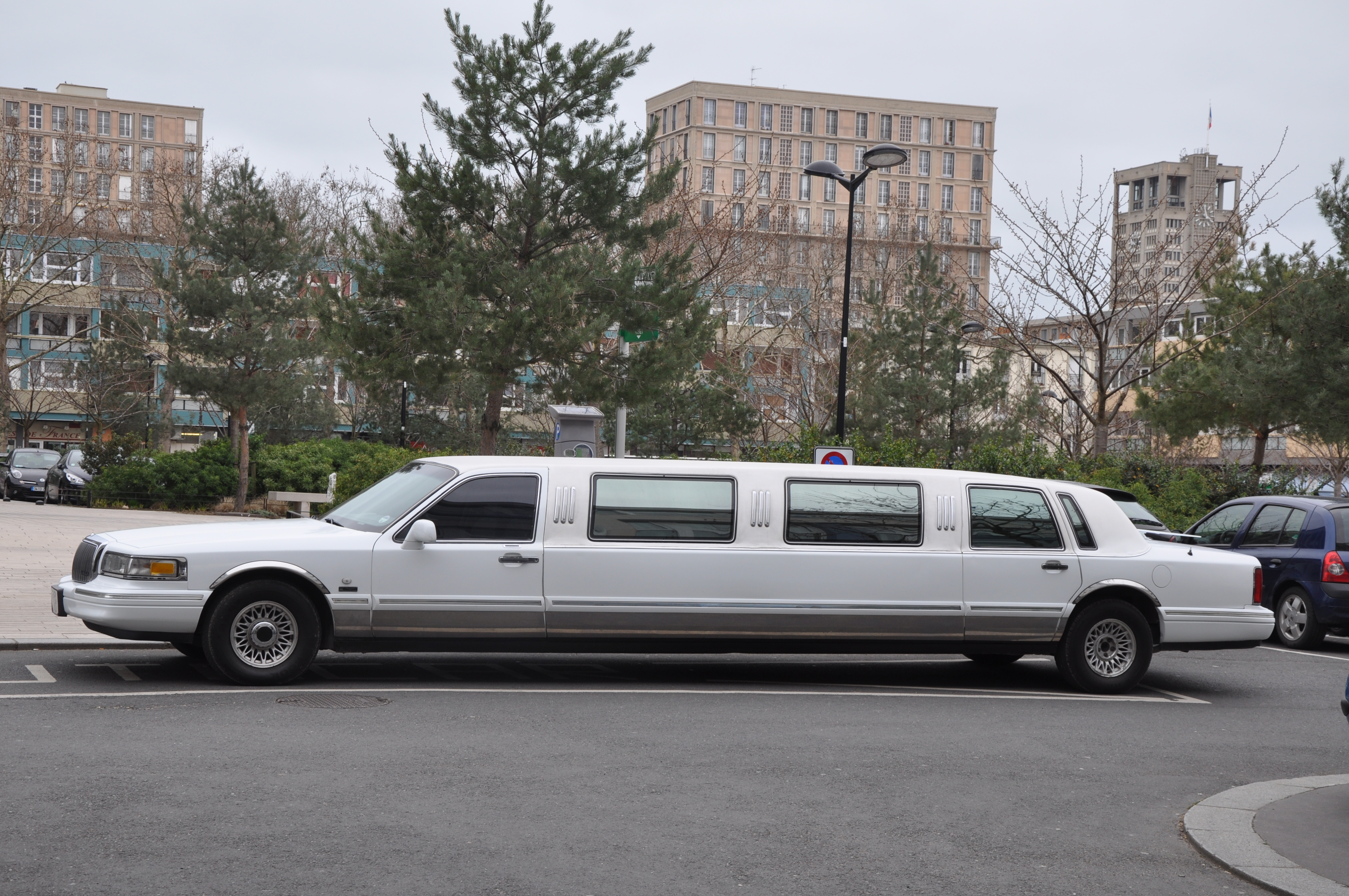 Lincoln Town Car Stretch Limousine (ca. 1995), Le Havre (Normandy, France)